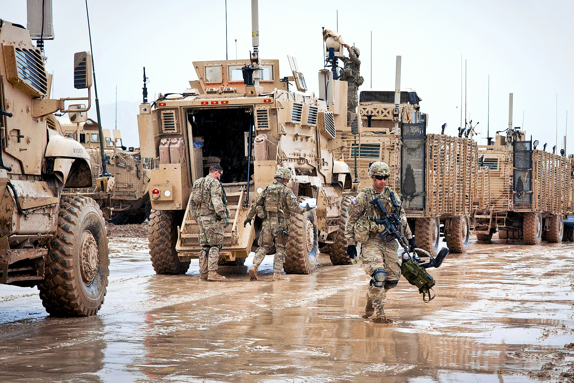 Staff Sgt. Joshua Devoe and other paratroopers with the 82nd Airborne Division’s 1st Brigade Combat Team return from a patrol in the rain, April 20, 2012, in Afghanistan’s southern Ghazni province. This platoon is part of the 2nd Battalion, 504th Parachute Infantry Regiment, based on Forward Operating Base Arian. (U.S. Army photo by Sgt. Michael J. MacLeod)